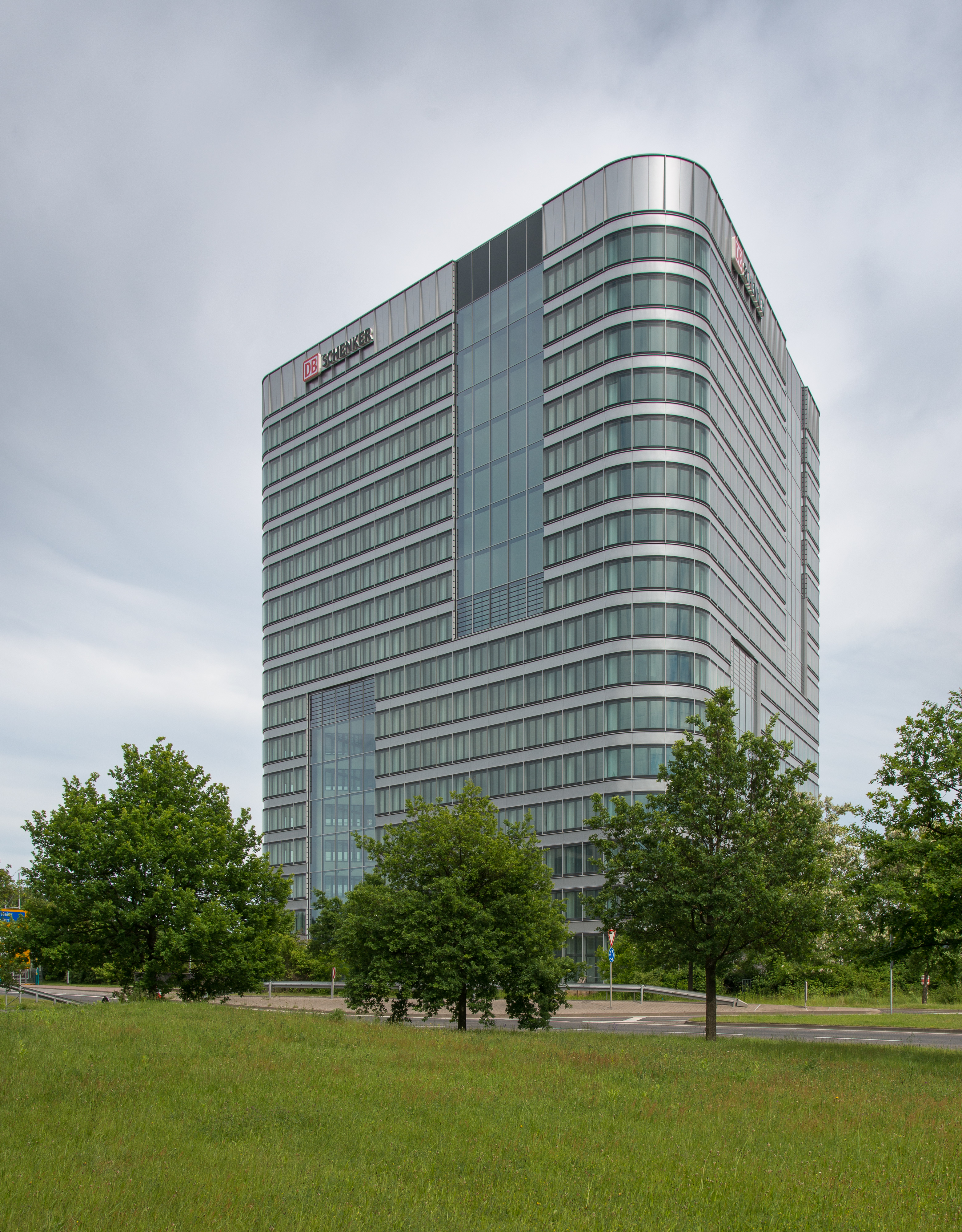 Frankfurt Gateway Gardens, Thea-Rasche-Straße, 'Alpha Rotex' office building shortly before its completion (June 2013)